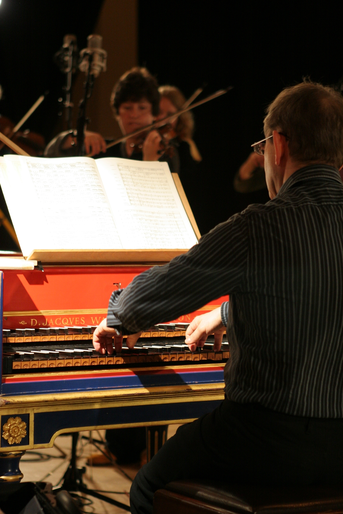 Trevor Pinnock directs the European Brandenburg Ensemble in their recording of Bach's Brandenburg Concertos, Sheffield, December 2006. The violinist that can be seen in the background is Kati Debretzeni.